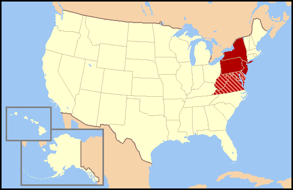 Mid Atlantic region